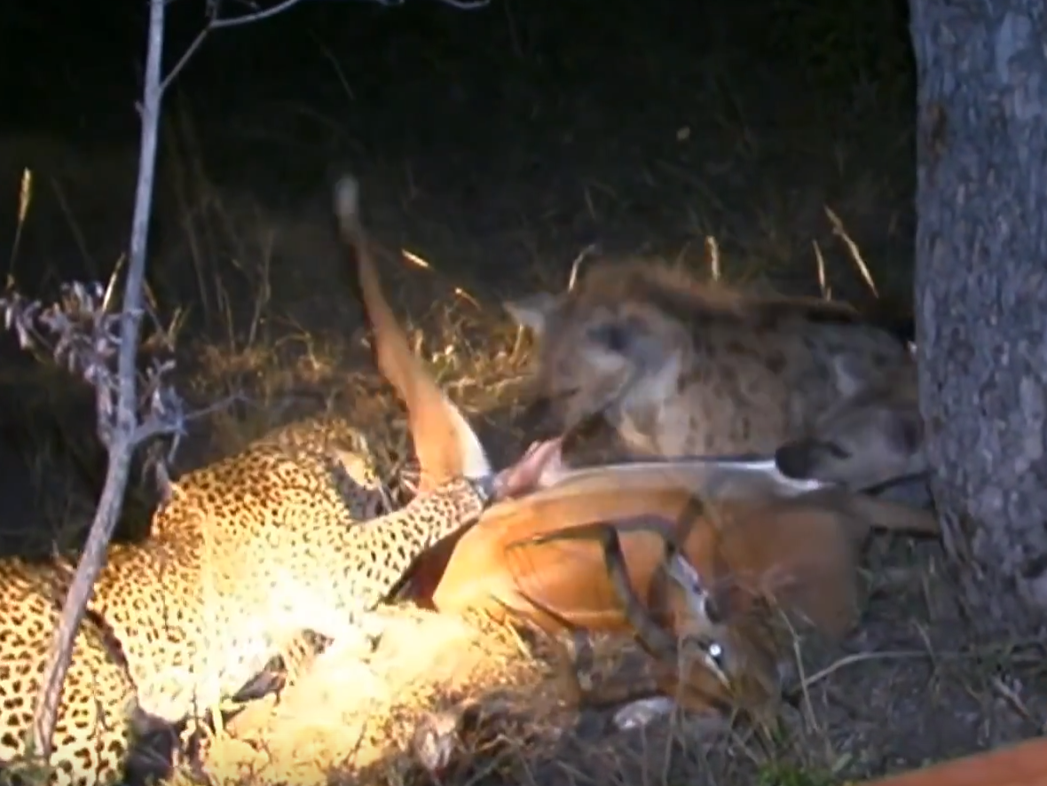 Leopard confronting hyenas over a kill, Greater Kruger National Park